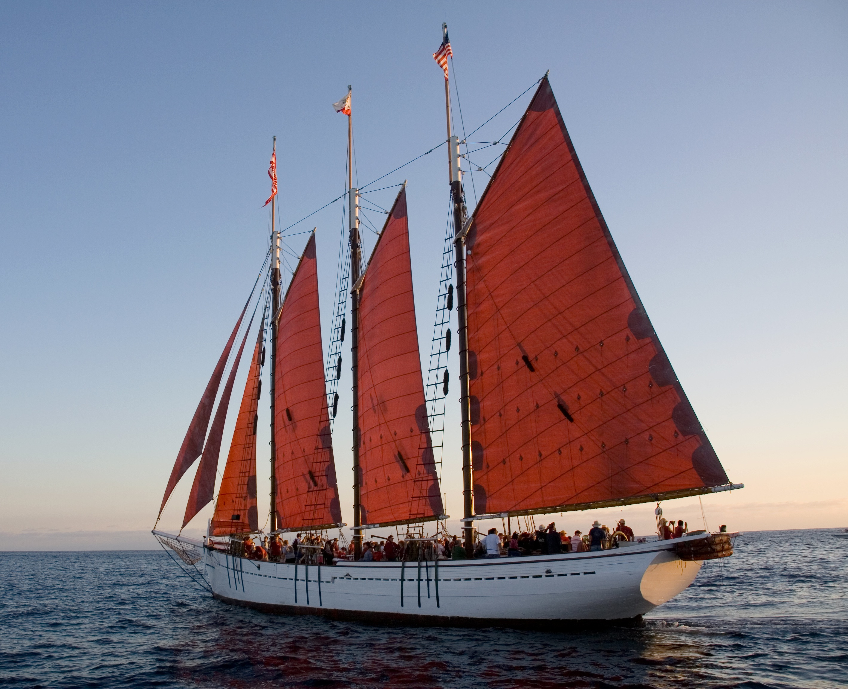 The Schooner American Pride at the 2006 Dana Point Tall Ship Festival. Ohazi 21:36, 13 September 2006 (UTC)